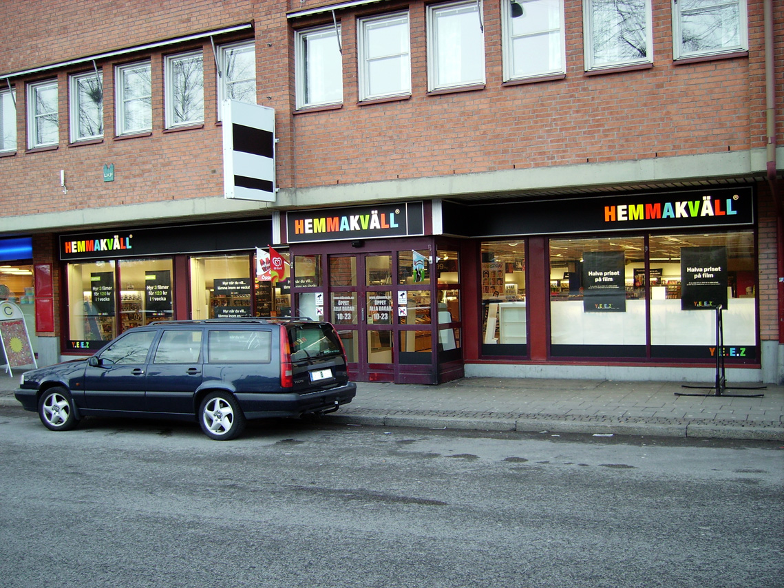 A videostore called Hemmakväll in Lund, Sweden